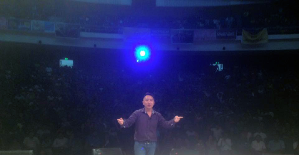 Chris Cheong performing India - For below article purposes